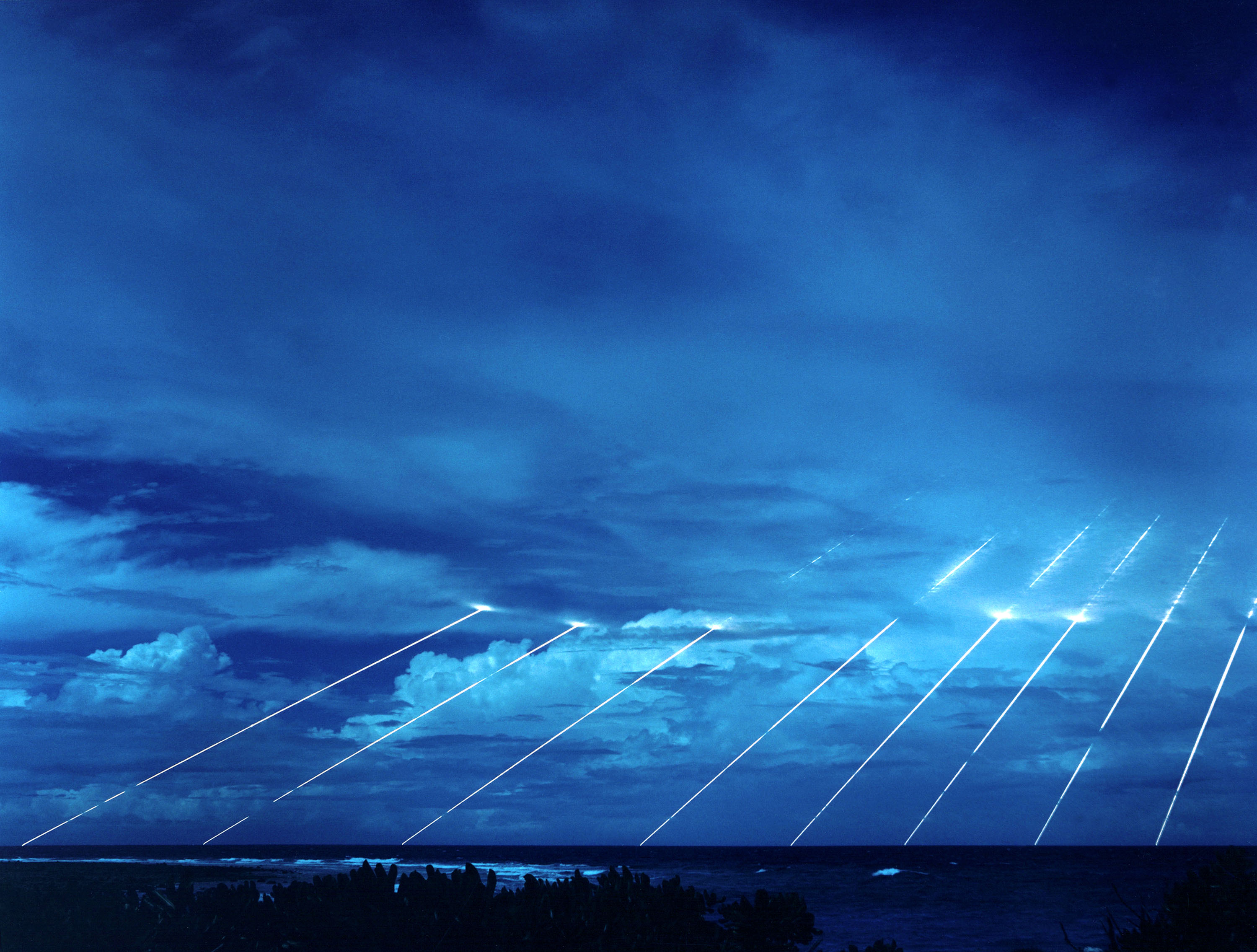 LGM-118A Peacekeeper missile system being tested at the Kwajalein Atoll in the Marshall Islands. This is a long exposure photo showing the paths of the multiple re-entry vehicles deployed by the missile. One Peacekeeper can hold up to 10 nuclear warheads, each independently targeted. Were the warheads armed with a nuclear payload, each would carry with it the explosive power of twenty-five Hiroshima-sized weapons which is equivalent to around 400 kilotons of TNT.